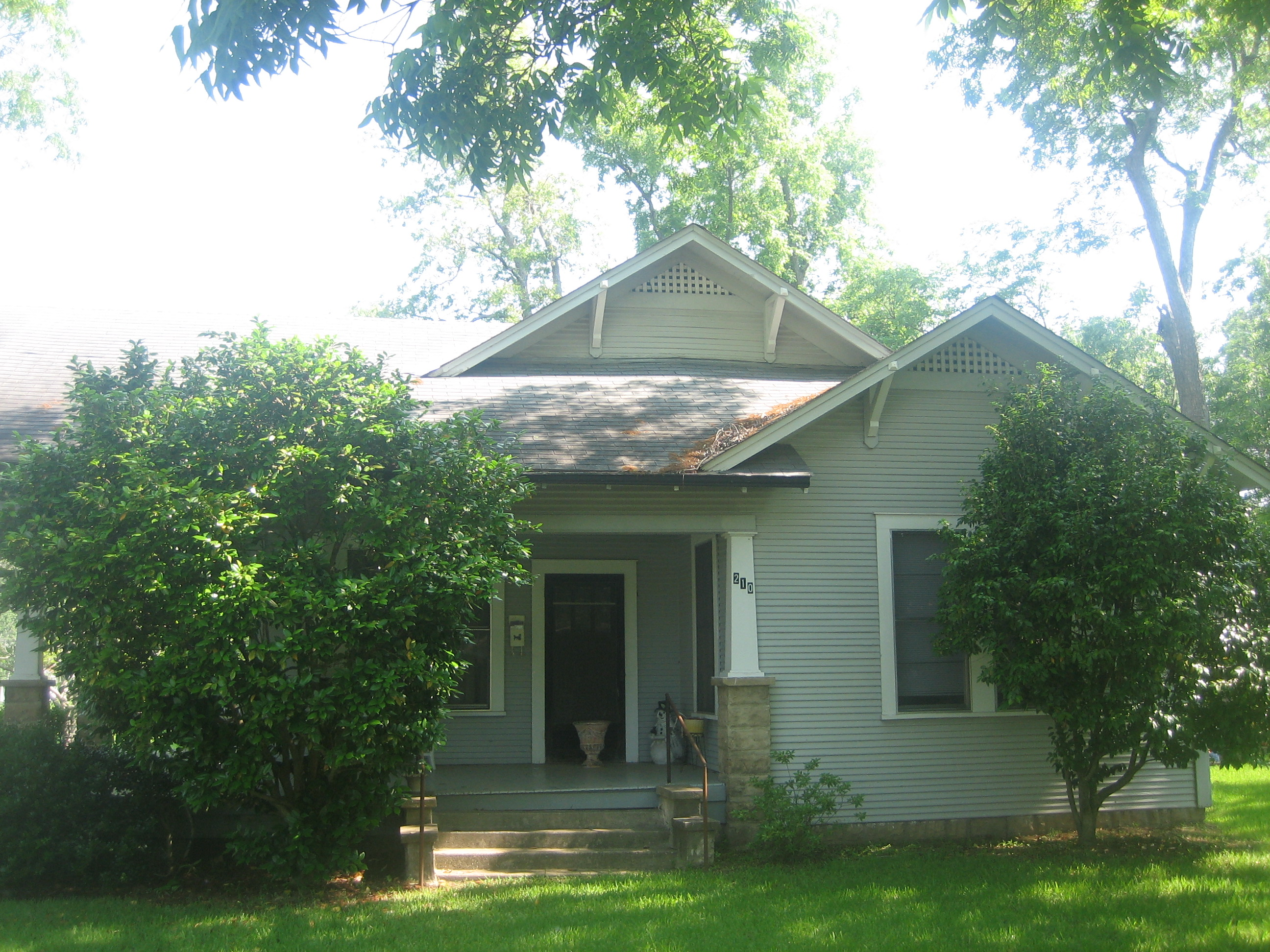 Home of David Houston in Minden, Louisiana. I took photo on May 26, 2009.Billy Hathorn (talk) 02:50, 29 May 2009 (UTC)